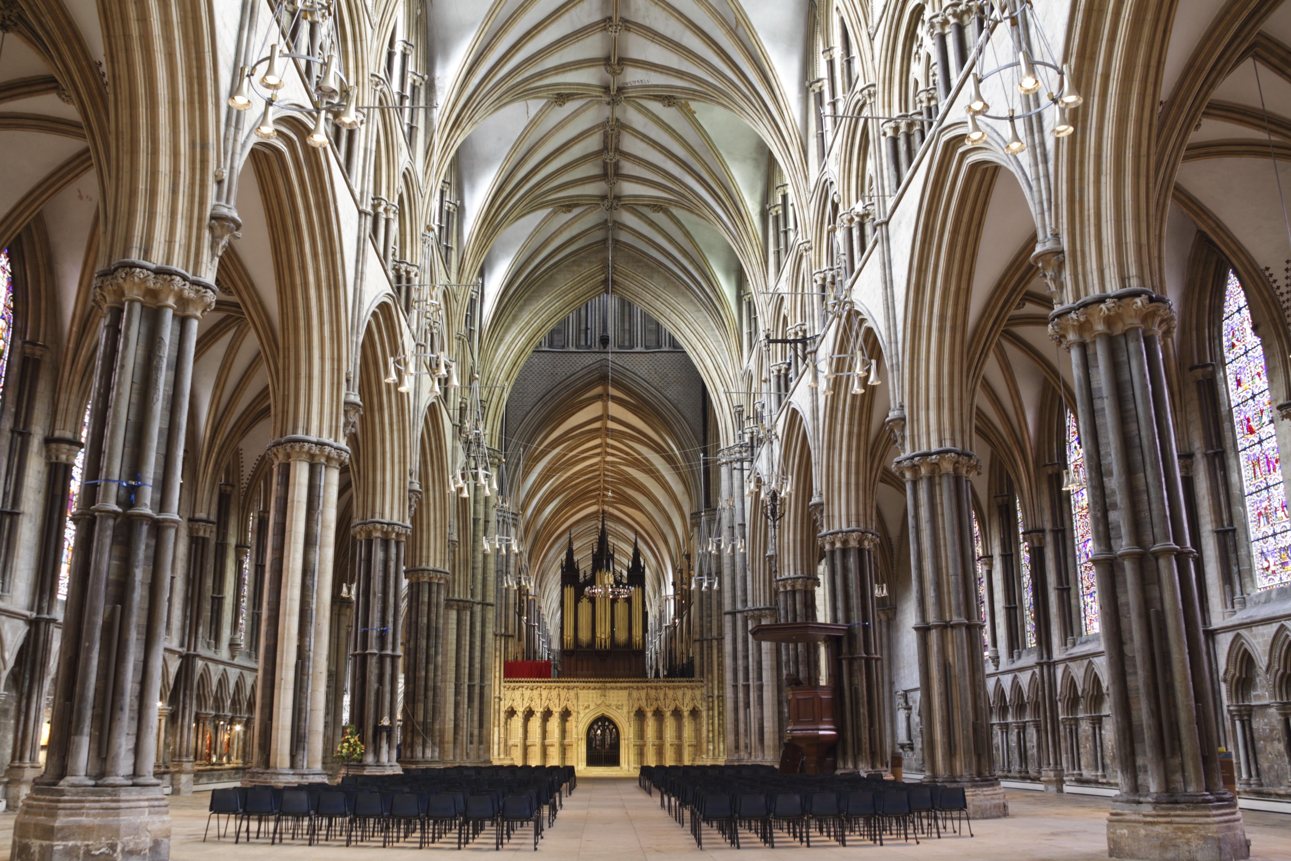 Here is a photograph taken from inside Lincoln Cathedral. Located in Lincoln, Lincolnshire, England, UK. You CAN view and download the full 18megapixel image in Flickr, check out the other sizes when viewing ***